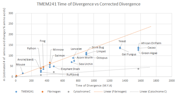 The graph uses the idea of a molecular clock to show how quickly a protein sequence is diverging. Fibrinogen, the top bound, represents a quickly evolving protein. Cytochrome C represents a stable protein. TMEM241 is somewhere in between.